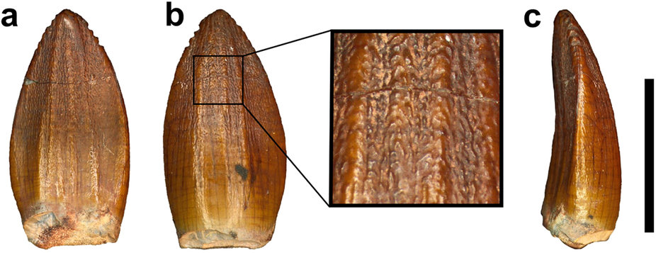 Tooth of Pulanesaura eocollum (BP/1/6204) in (a) lingual view; (b) labial view with expanded detail of tooth surface; (c) ?mesial view. Scale bar equals 1cm. Photographs by BWM.